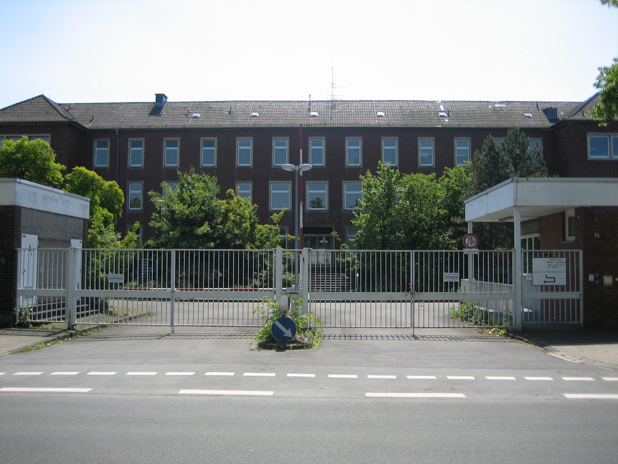 The main entrance and main building of the former military hospital in the marker Hamm Ave.